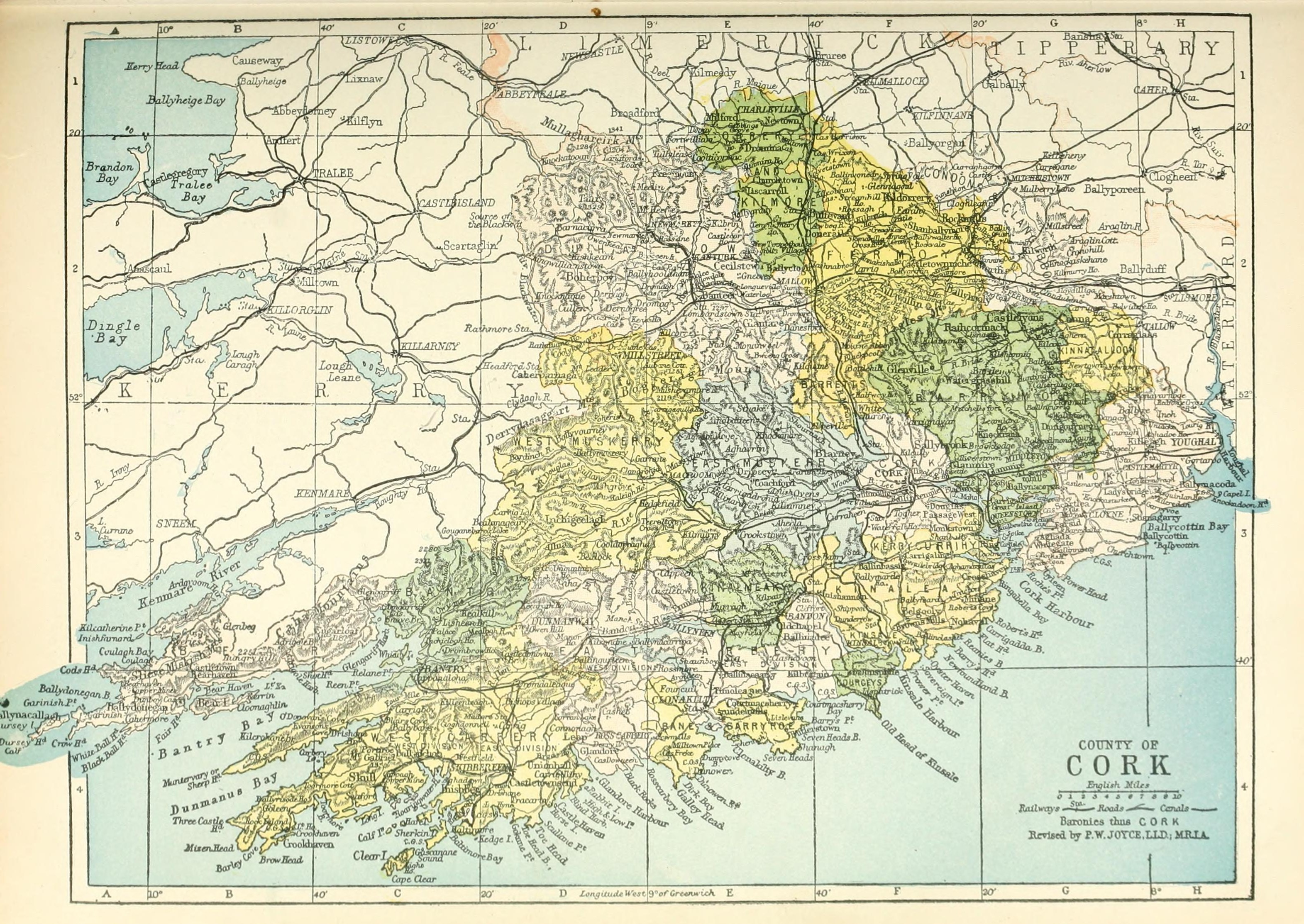 Map of the baronies of County Cork in Ireland; taken from Atlas and cyclopedia of Ireland, p.66